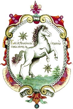 Coat of Arms of Severia. 1672